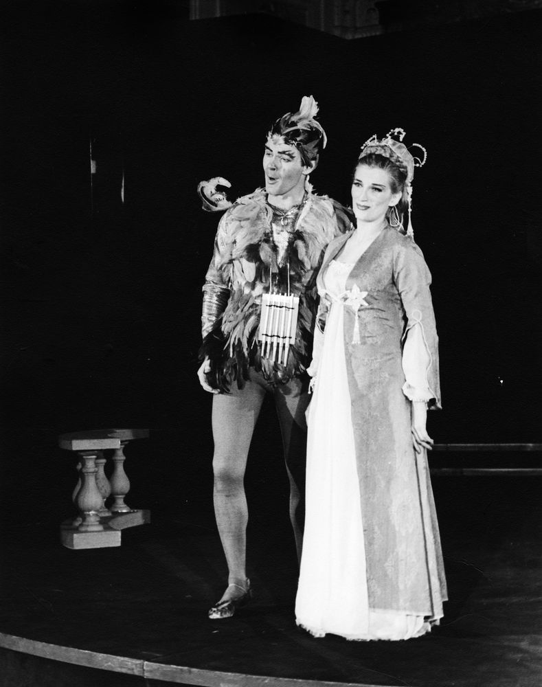 John Reardon (left) and Patricia Brooks (right), of the New York City Opera Company, perform onstage during the Opera Society of Washington’s production of Mozart’s “The Magic Flute,” following a state dinner in honor of President of India, Dr. Sarvepalli Radhakrishnan. East Room, White House, Washington, D.C.